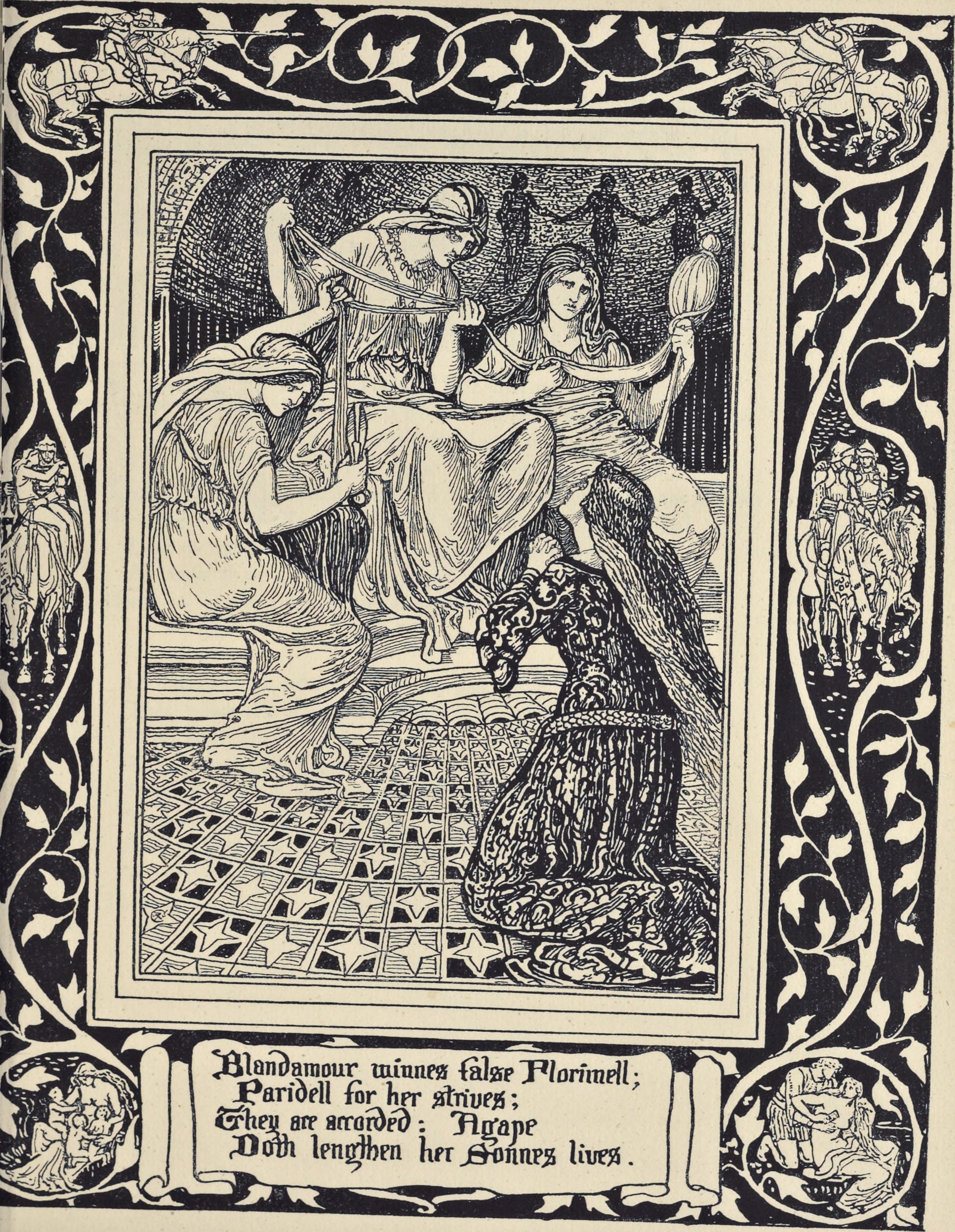 Title: Spenser's Faerie queene. A poem in six books; with the fragment Mutabilite Year: 1895 (1890s) Authors: Spenser, Edmund, 1552?-1599 Wise, Thomas James, 1859-1937 Crane, Walter, 1845-1915 Subjects: Publisher: London, G. Allen Text Appearing Before Image: ' Text Appearing After Image: '